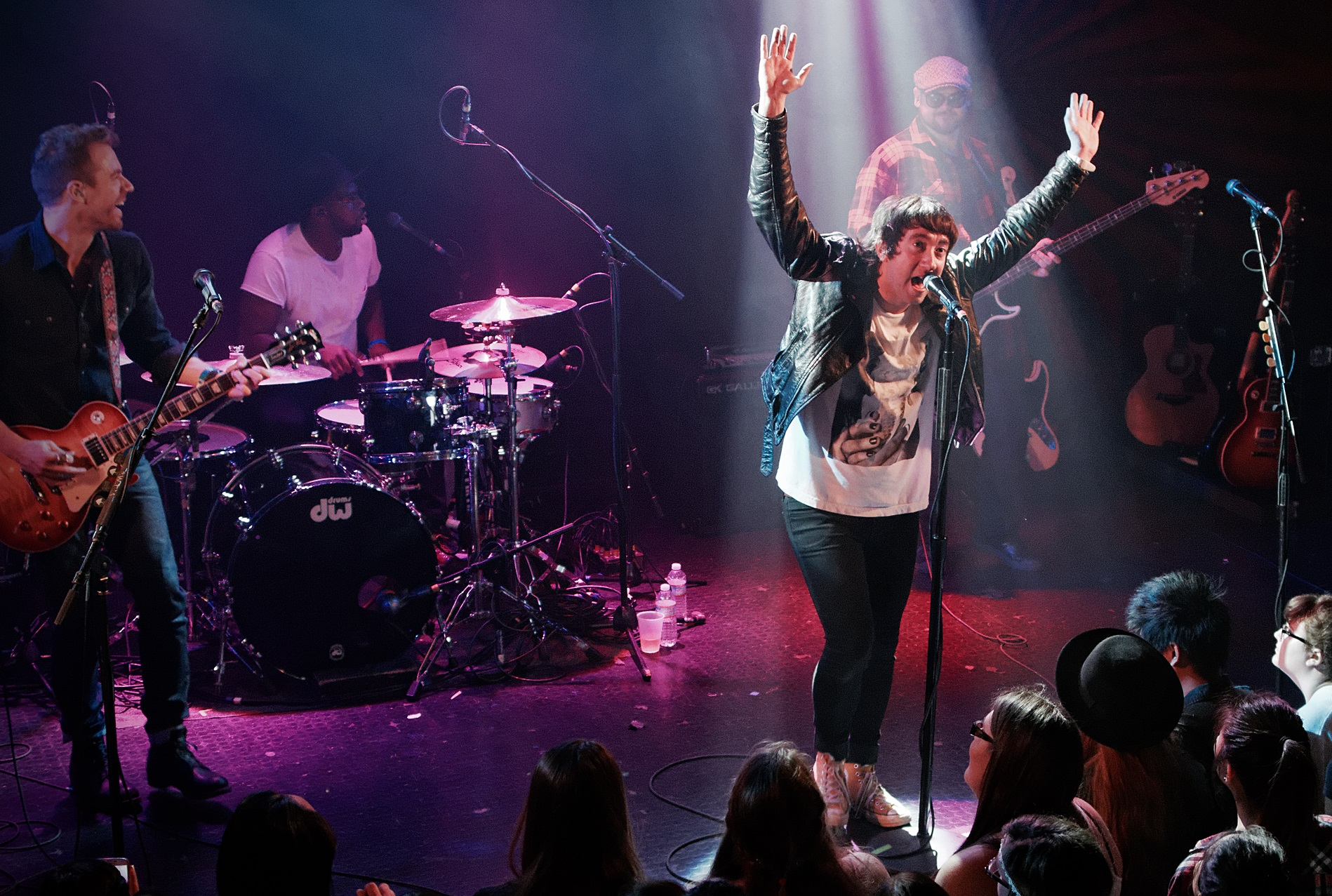 Plain White Ts at The Troubadour in 2015